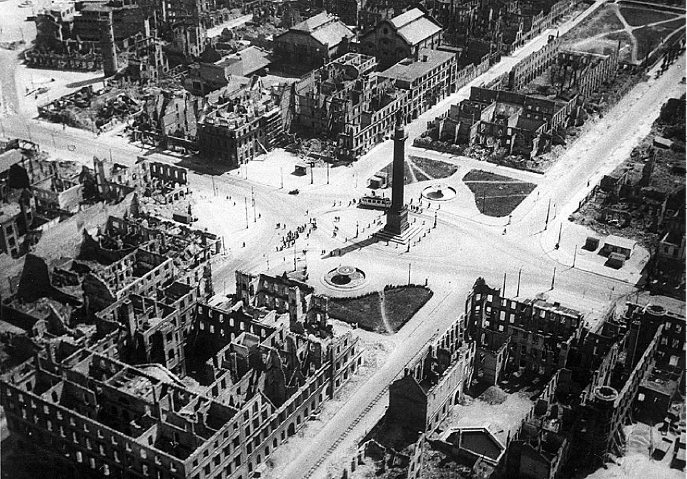 Aerial photograph of Luisenplatz one day after the Brandnacht of 11th September 1944.